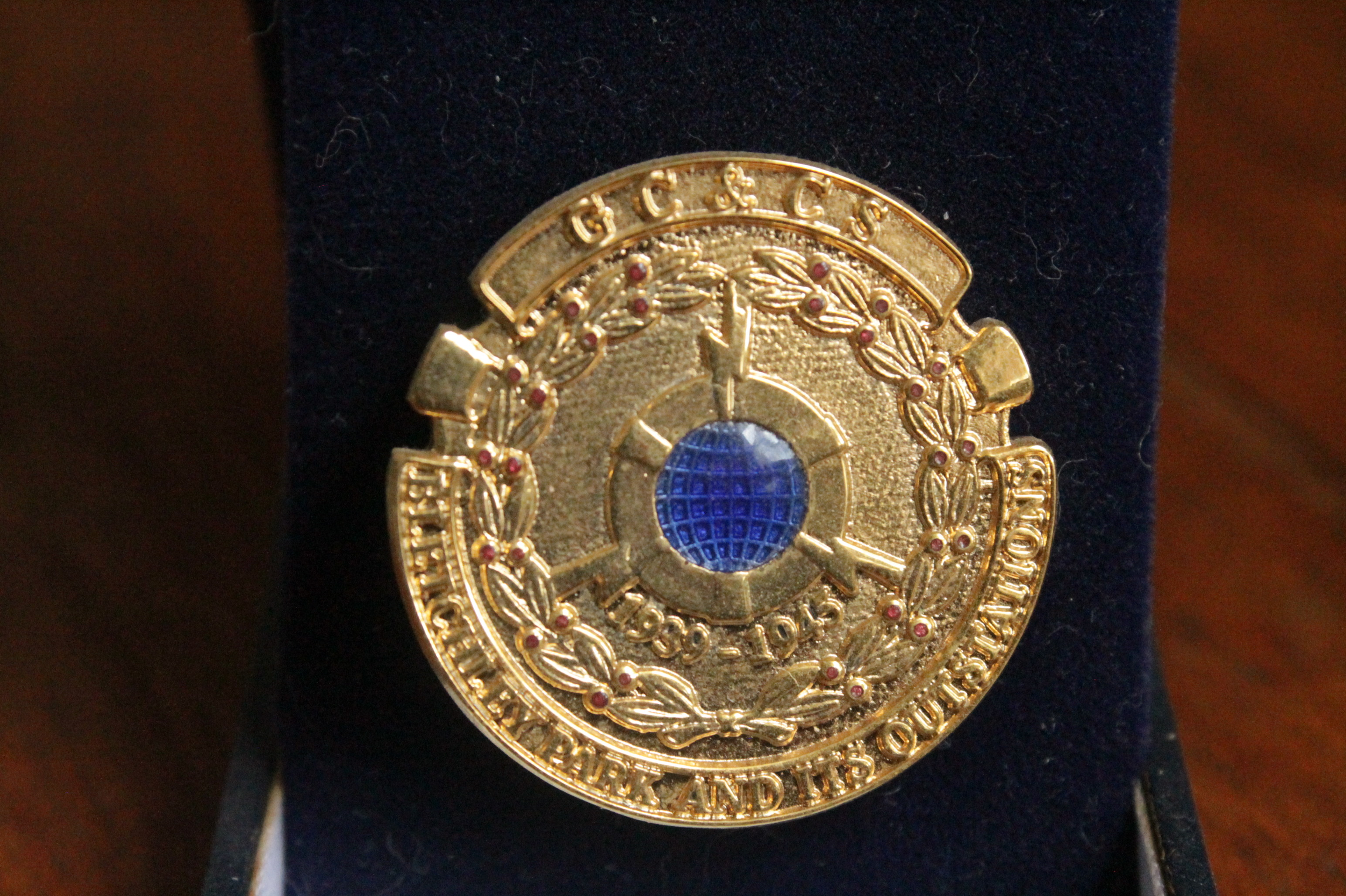 Commemorative medal for those working at Bletchley Park, awarded to Joyce Gladys Dickson (nee Day). Awarded by Gordon Brown PM